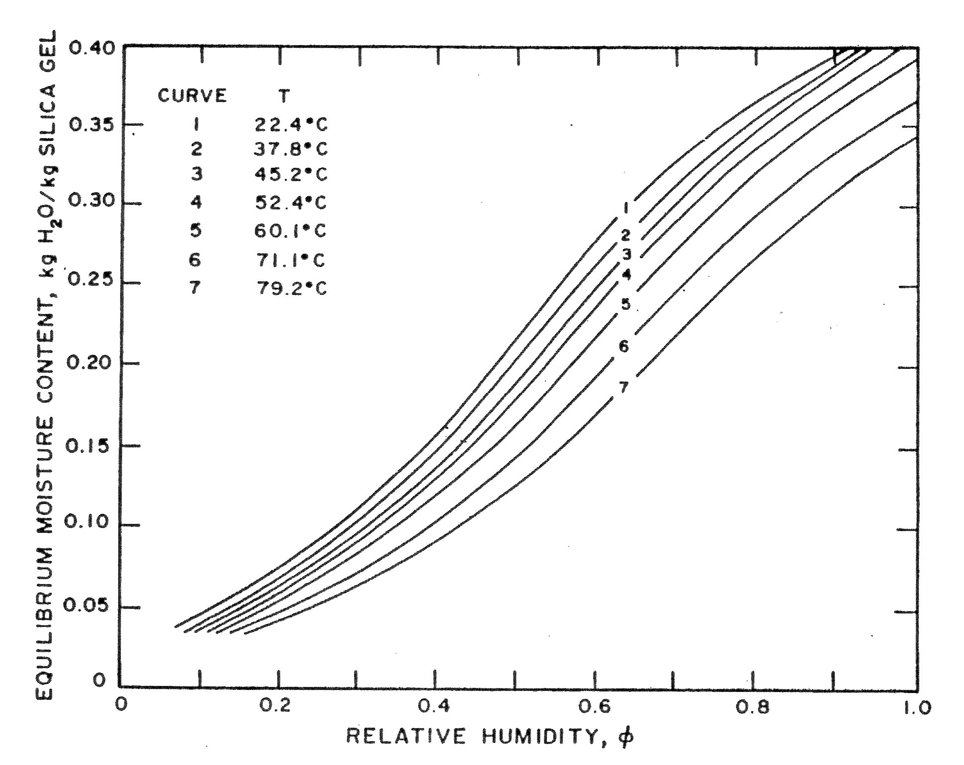 Template:CCOSet of adsorption isotherms for Type V silica gel.